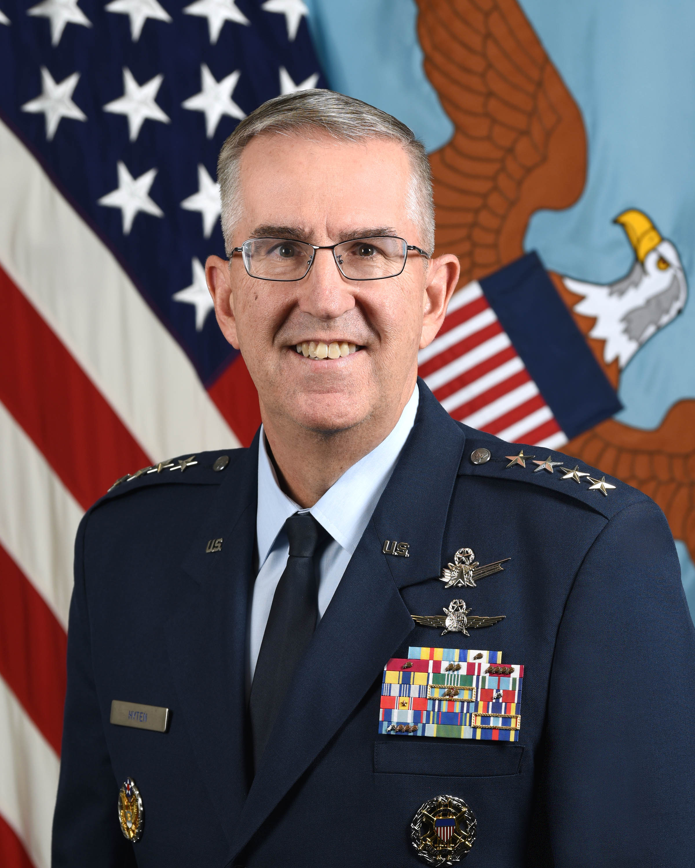 U.S. Air Force, Gen. John E. Hyten, 11th Vice Chairman, Joint Chiefs of Staff, poses for a command portrait in the Army portrait studio at the Pentagon in Arlington, Va., Nov. 27, 2019. (U.S. Army photo by Monica King)